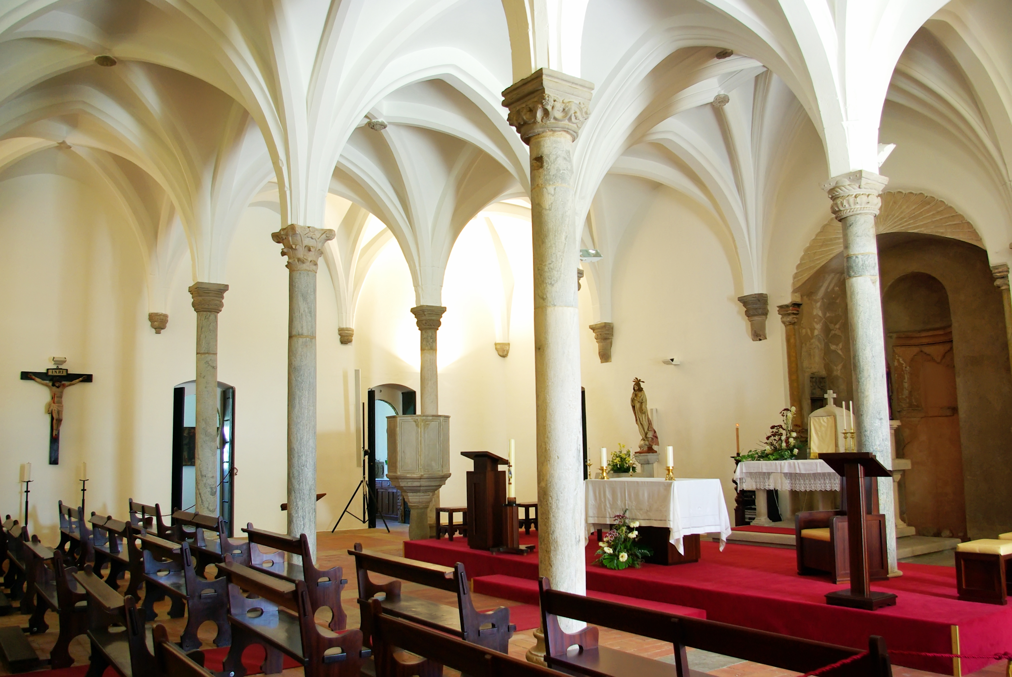 This file was uploaded for Wiki Loves Monuments in Portugal with the unique identifier 70163.